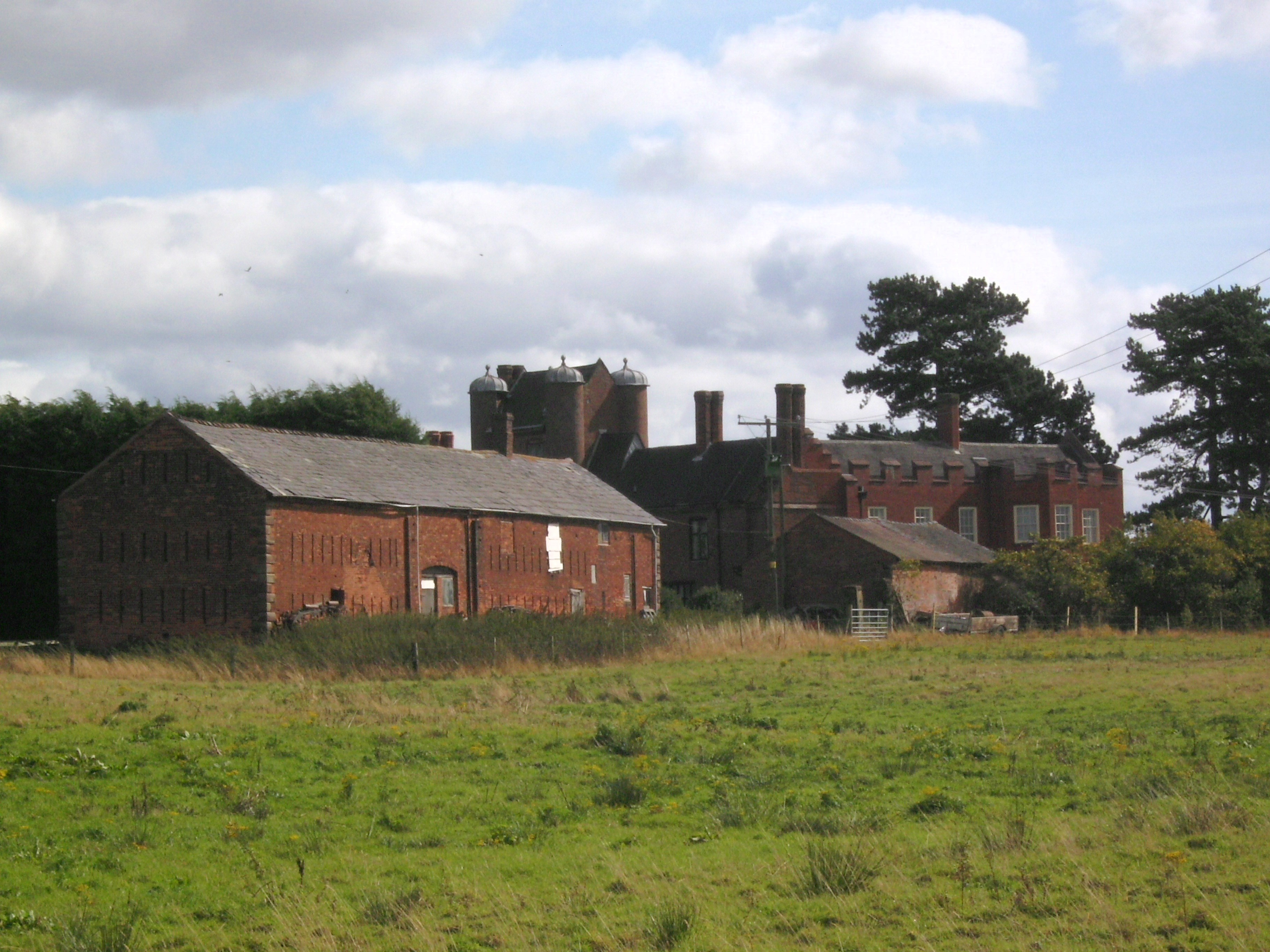 Pillaton Old Hall viewed from the north-west, near Penkridge, Staffordshire.